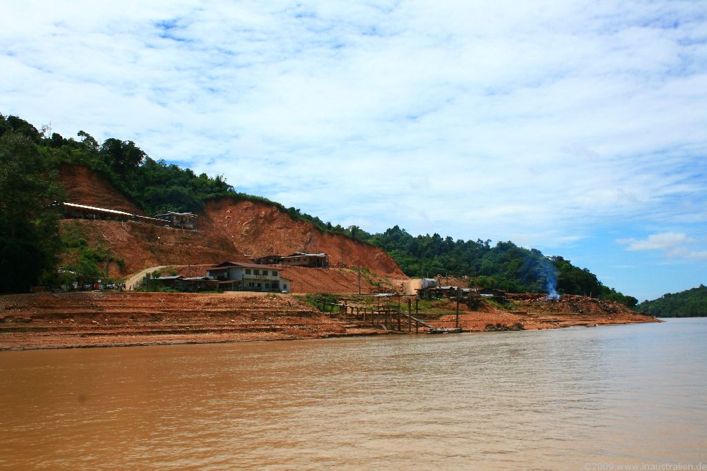 A logging camp along the Rajang River en route to Kapit, Sarawak, Malaysia. Borneo ironwood also known as Belian in Malay or scientific name Eusideroxylon zwagerii is the most common type of timber product cleared from this region.